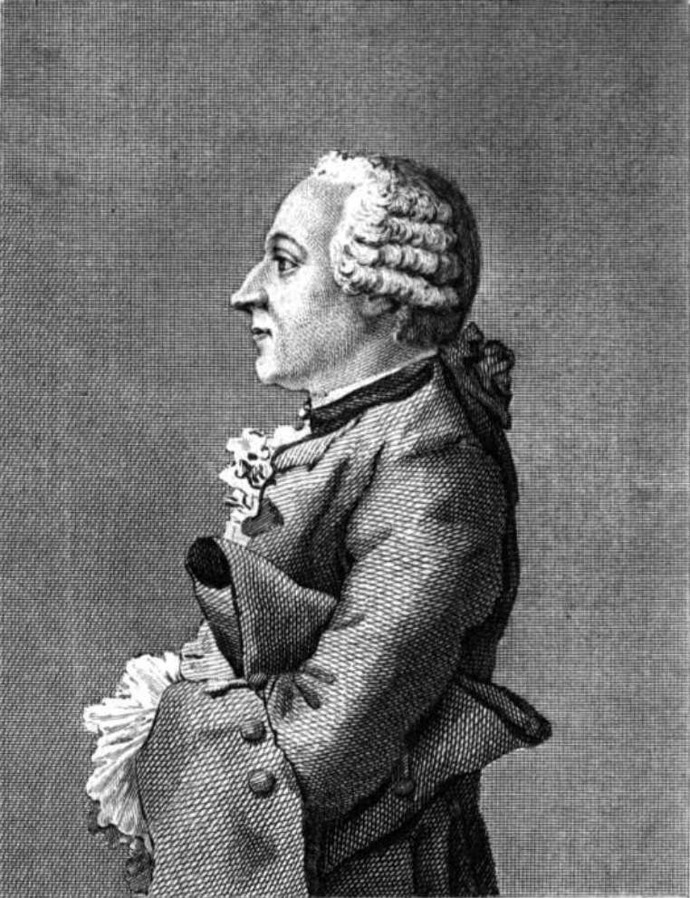 Friedrich Melchior von Grimm (1723 – 1807), German author.